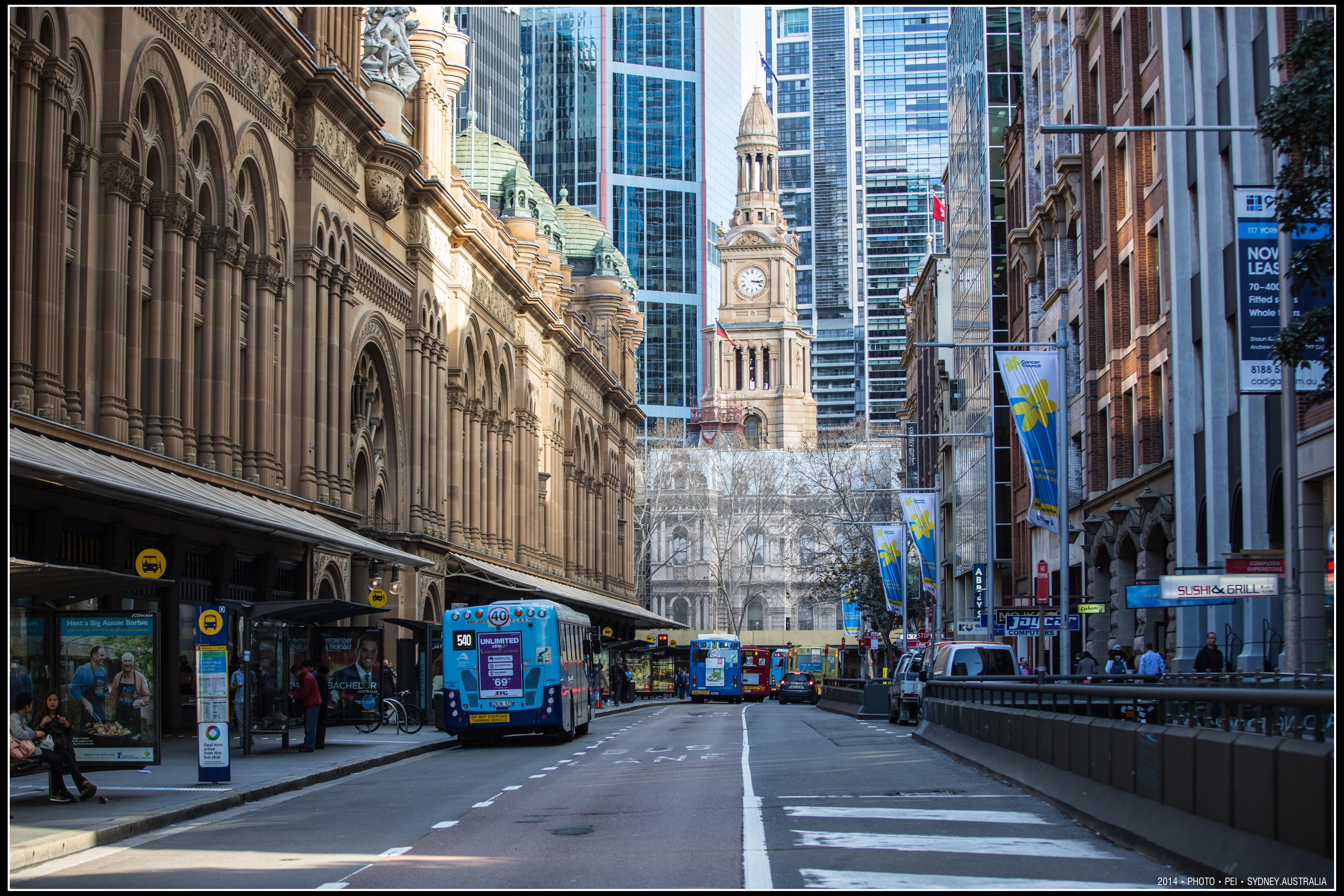 Queen Victoria Building and Sydney Town Hall undergoing maintenance viewed from York St, August 2014.